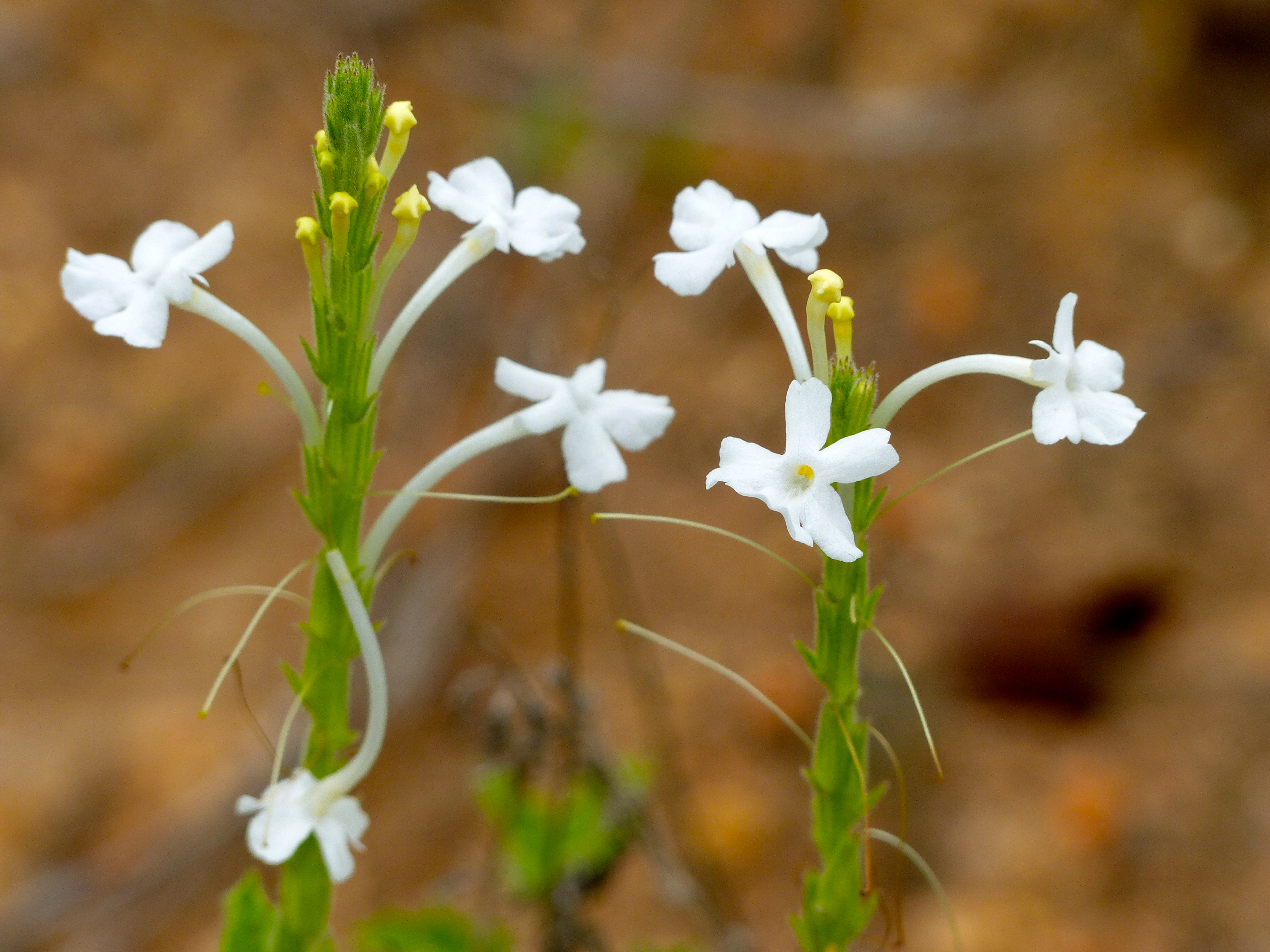 Rabelais Loop, East of Orpen, Kruger NP, SOUTH AFRICA